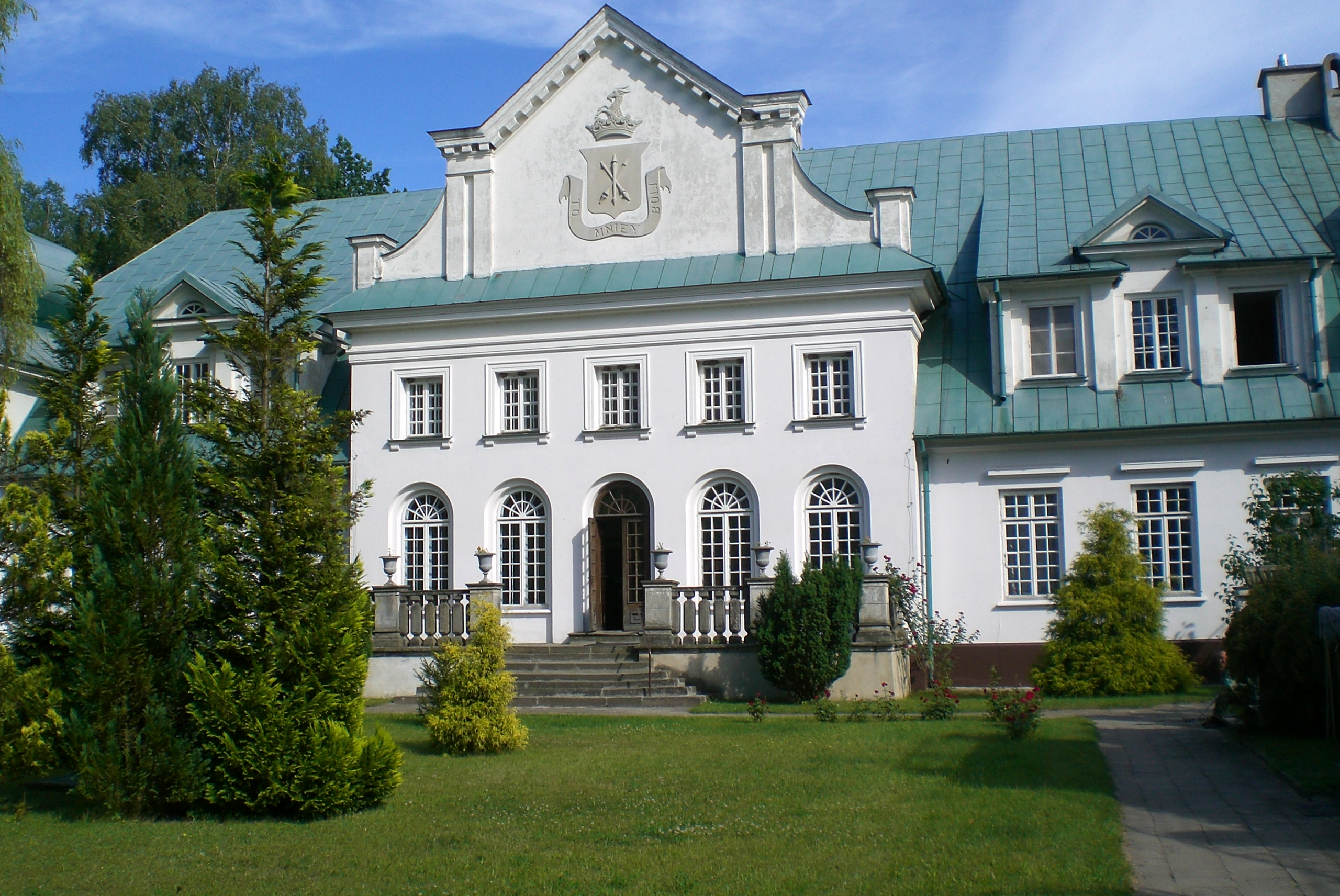 Palace of Zamoyski family in Adampol, Poland